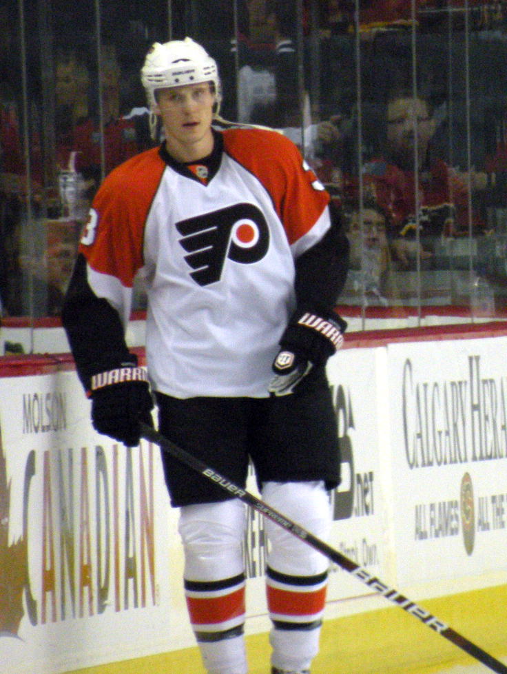 Philadelphia Flyers defenceman Oscars Bartulis prior to a National Hockey League game against the Calgary Flames